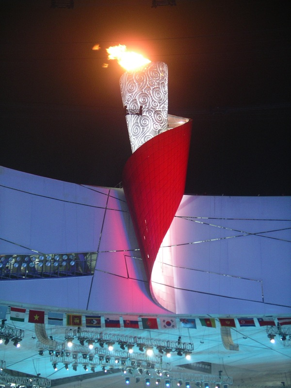 The Olympic torch at the Closing Ceremony